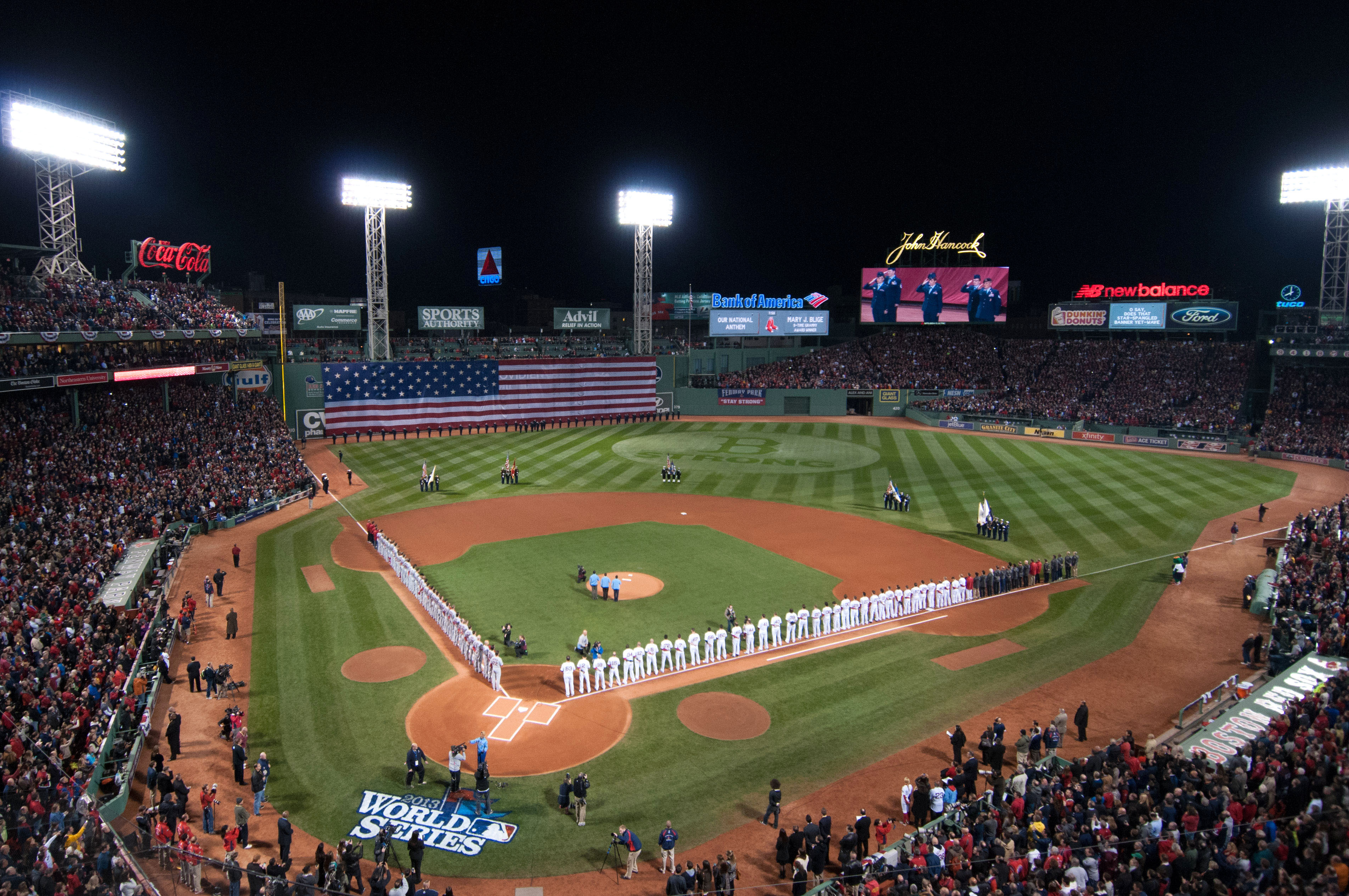 10/24/2013 - Airmen from Hanscom Air Force Base, also captured on the centerfield Jumbotron, line the flag-draped left field wall at Fenway Park in Boston during the World Series opening game Oct 23. Hanscom Airmen also provided one of the four military color guard formations on the field and other support to this major sporting event. (U.S. Air Force photo by Rick Berry)